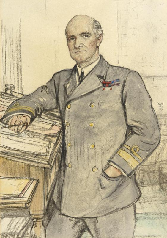 Rear-admiral William Reginald Hall, Cb image: a three quarter length portrait of Rear Admiral William Hall in Royal Navy uniform, standing against a tall wooden drawing desk covered with paperwork. He leans his right arm on the slanted surface of the desk, a pen in his right hand.